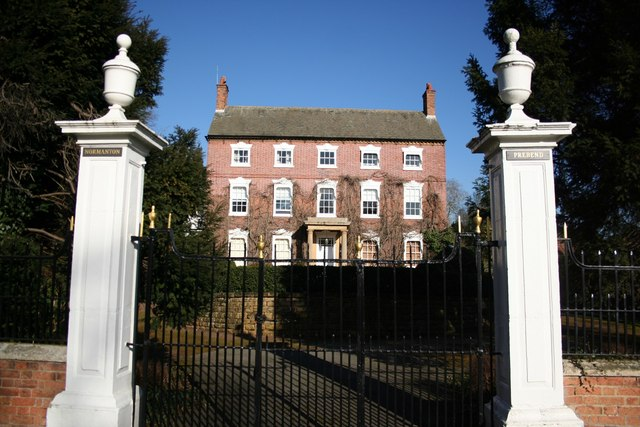 Normanton Prebend Large Prebend House at Southwell, five bays, three storeys and a central porch with Doric columns, c1765